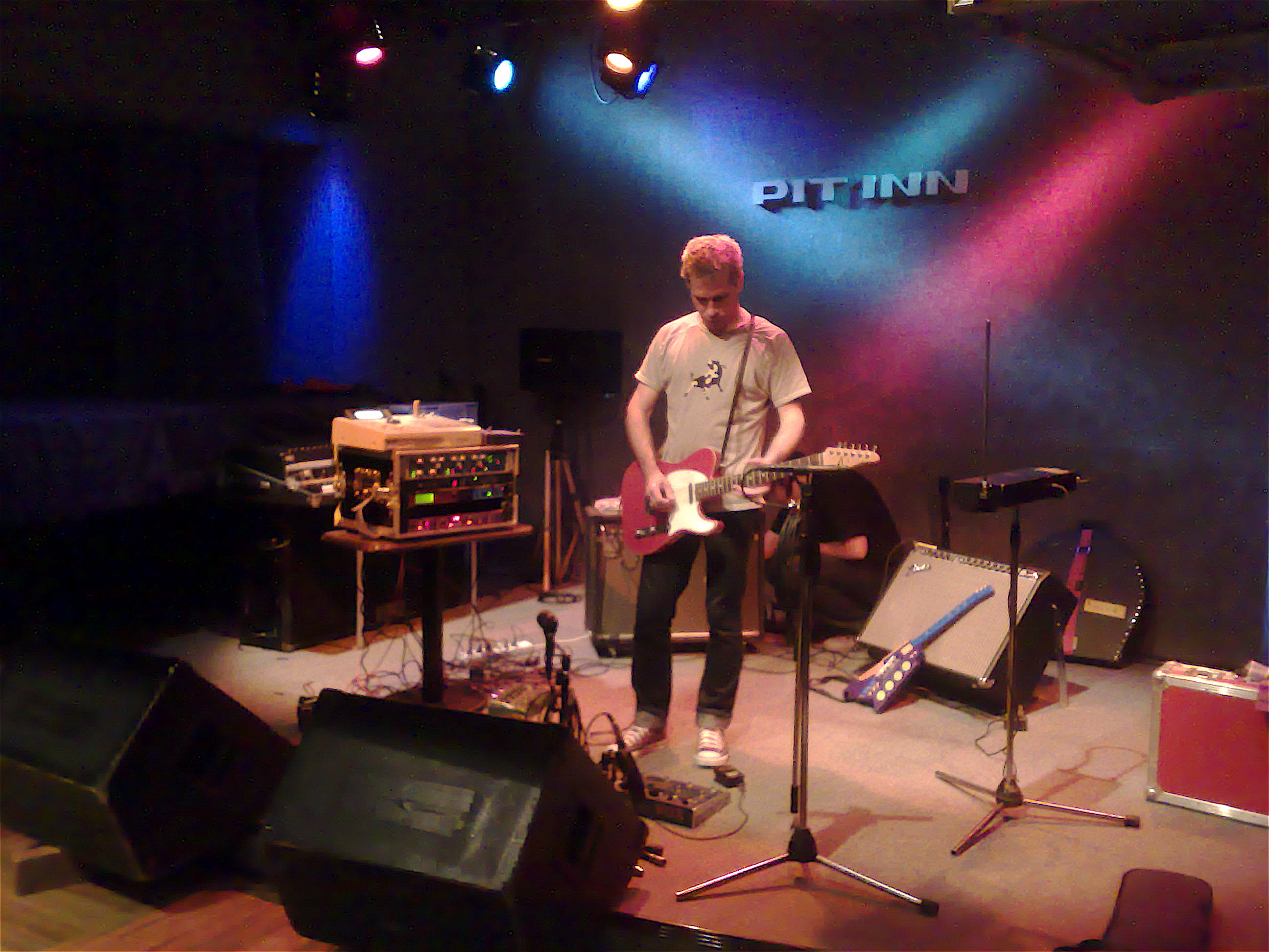 Guitarist Jarmo Saari in 2007. Probably doing a Solu gig in Japan.